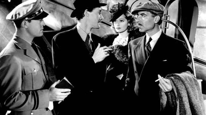 Promotional still for the 1939 film, Five Came Back, starring Chester Morris, John Carradine, Lucille Ball and Joseph Calleia